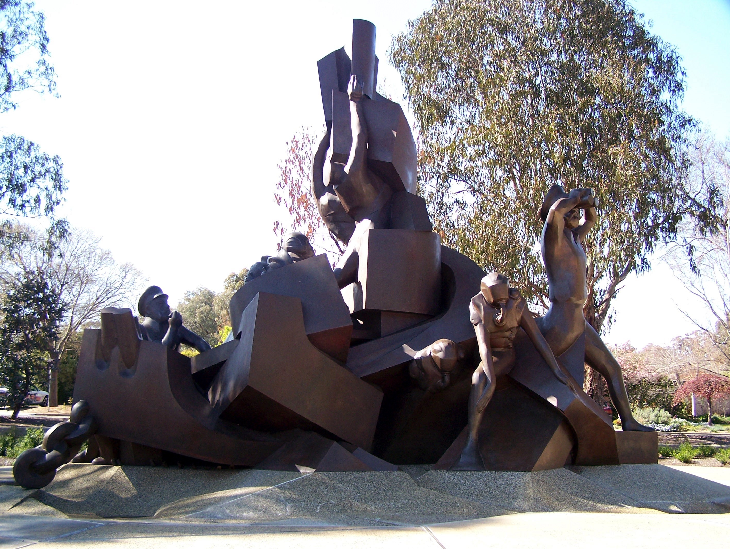 Royal Australian Navy Memorial, sculpture by Ante Dabro on ANZAC Parade, Canberra/Australia